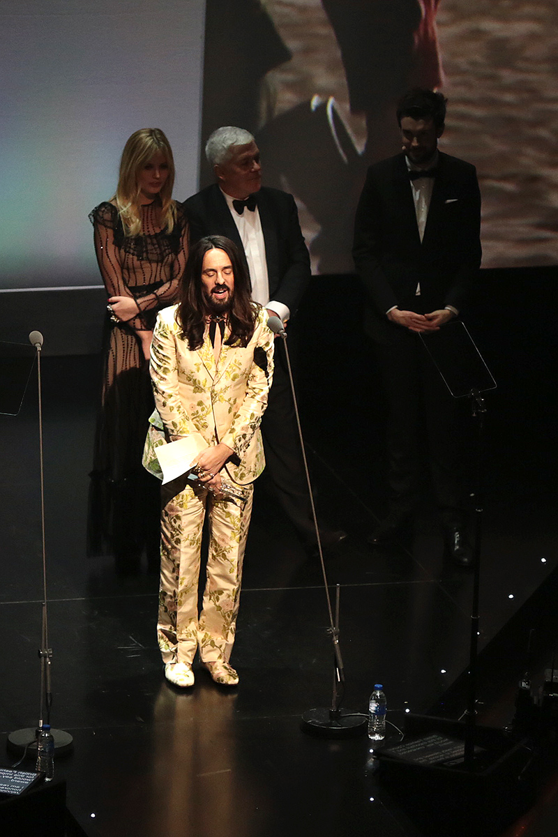 International Designer: Recognising a non-British internationally acclaimed, leading designer who has directed the shape of fashion in the past year both in the UK and internationally. WINNER: Alessandro Michele for Gucci Presented by Tim Blanks and Georgia May Jagger